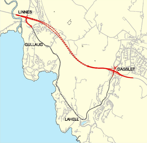 Map of the proposed new motorway section of National Road 23 between Dagslet and Linnes in Buskerud, Norway.